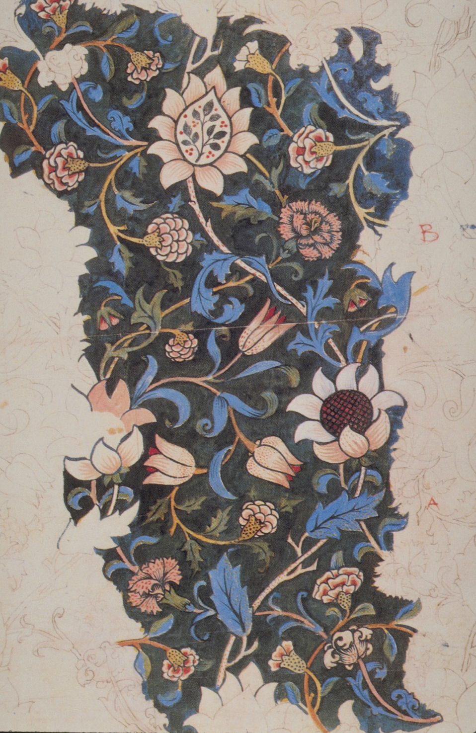 Desig for Evenlode printed textile by William Morris. Pencil, pen and ink, chalk, watercolour and bodycolour with annotations. (Identification from Linda Parry, ed.: William Morris, Abrams, 1996, ISBN 0-8109-4282-8, p. 263)